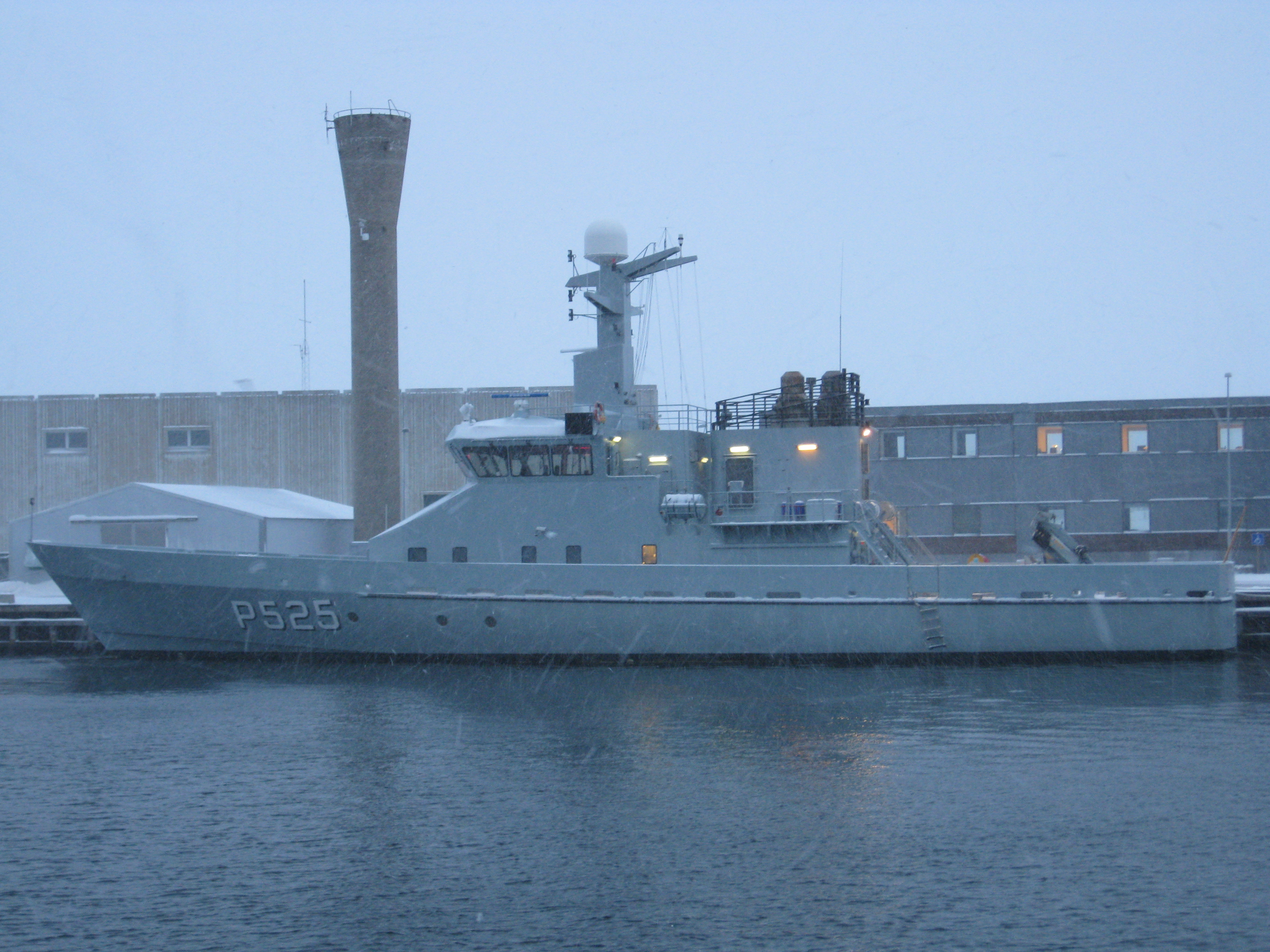 HDMS Rota (P525) moored at Naval base Korsør